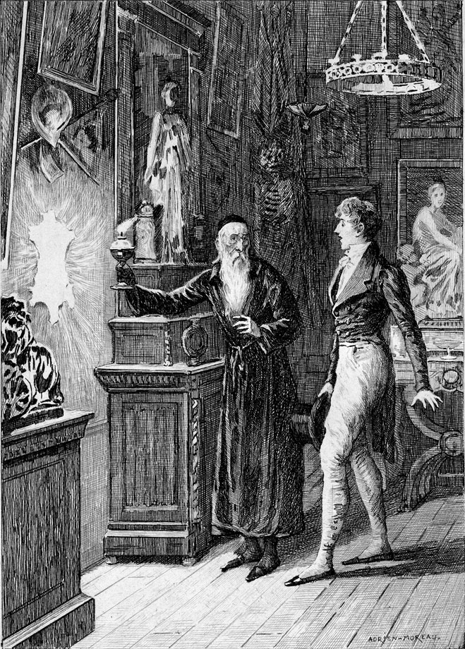 Title page of Honoré de Balzac's The Magic Skin (1831).